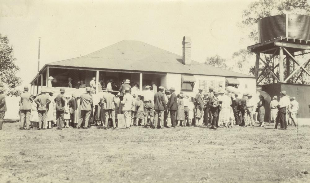 Large crowd at the opening of the golf clubhouse, Toowoomba, ca. 1925. Men in suits and hats and ladies in their long dresses, hats and carrying umbrellas, gather around the new clubhouse. A large water tank on a stand is on the right.